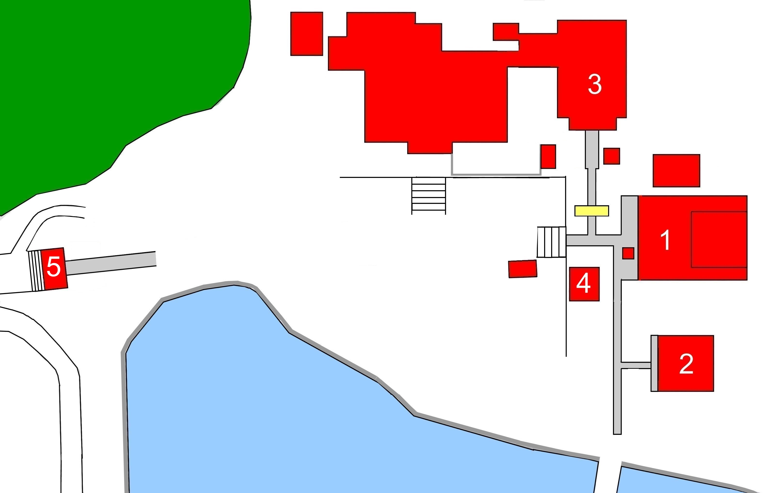 Layout of Hanta-Temple at Matsuyama, Japan